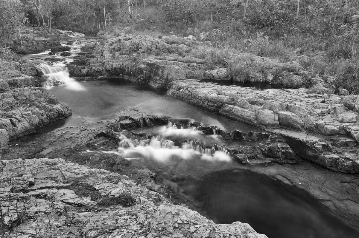 500px provided description: Litchfield National Park, Northern Territory, Australia [#landscape ,#australia ,#litchfield]